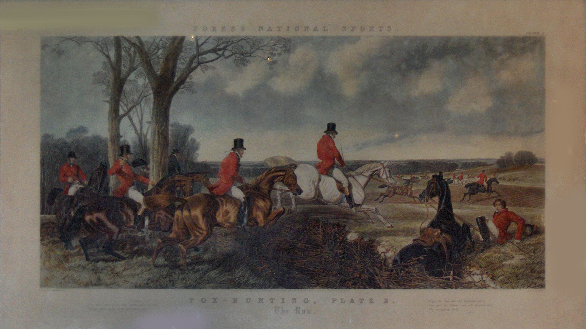 "The Run" - engraving published by print dealer S.W. Fores (end 18th century)